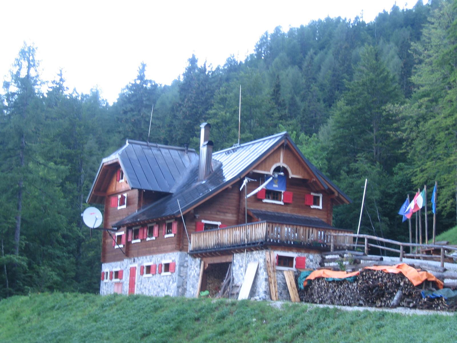 Alpine hut Luigi Zacchi (1380 m), Italy